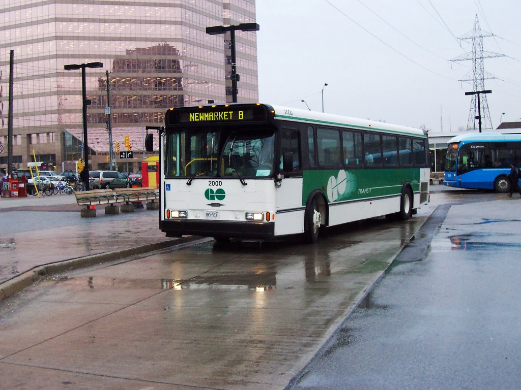 GO Transit Orion #2000 at the GO Finch Terminal, in Toronto; facing west.